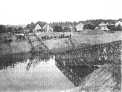 Albert Canal bridge Sept 14, 1944 1st try failed.